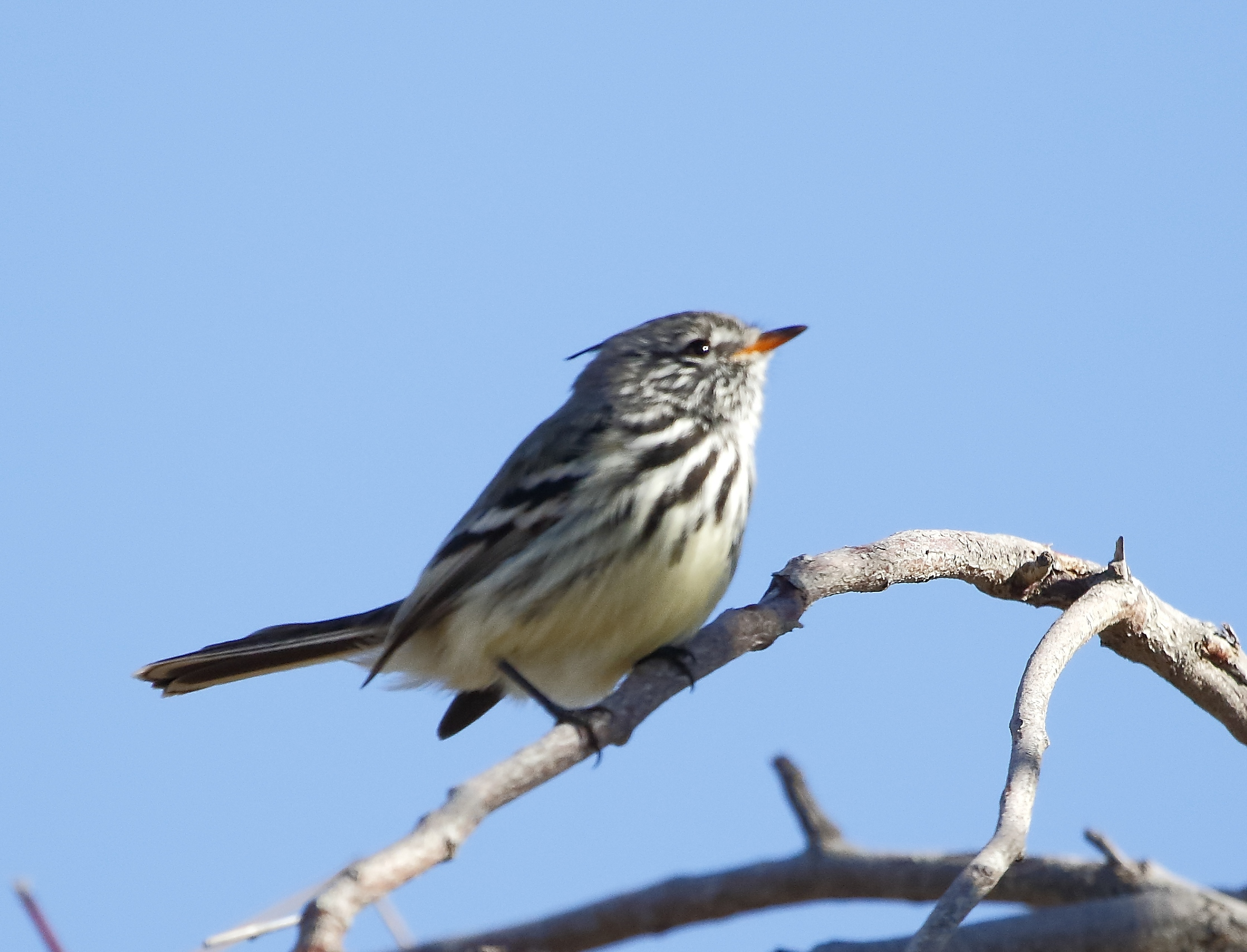 Yellow-billed tit-tyrant at Reserva de fauna y flora Bosque Telteca - Lavalle - Mendoza - Argentina